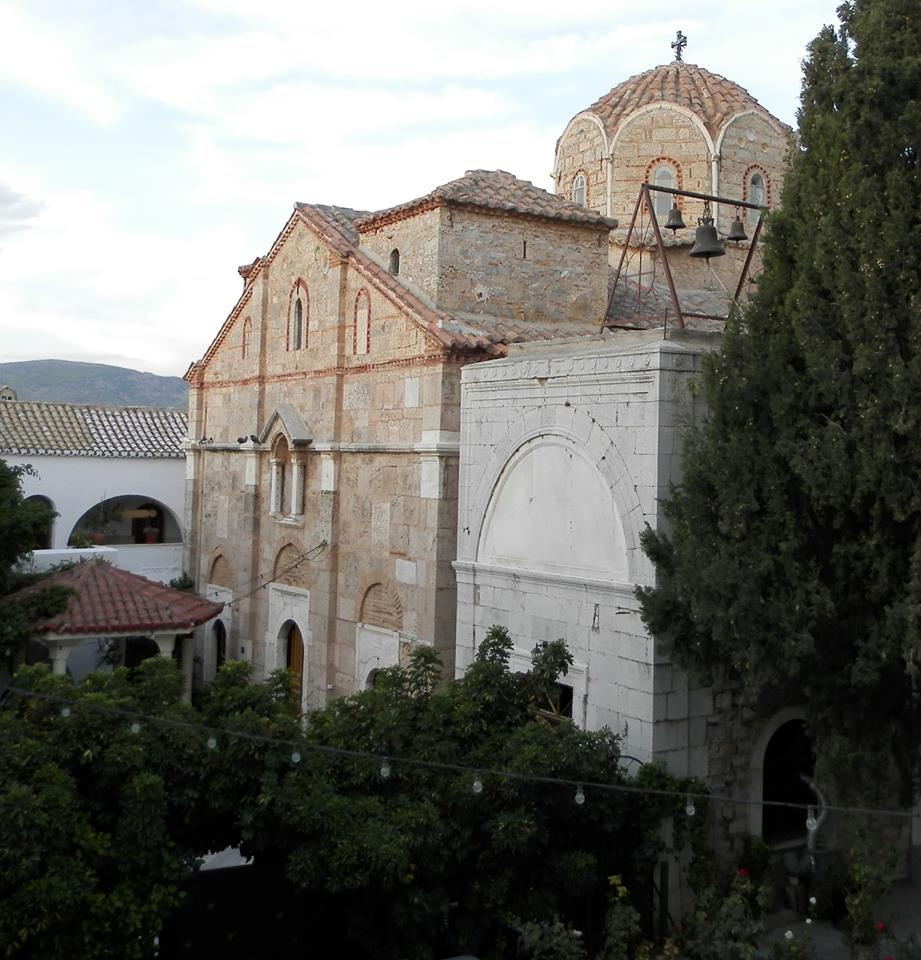 The historic monastery of Faneromeni, with buildings of the 13th-17th century